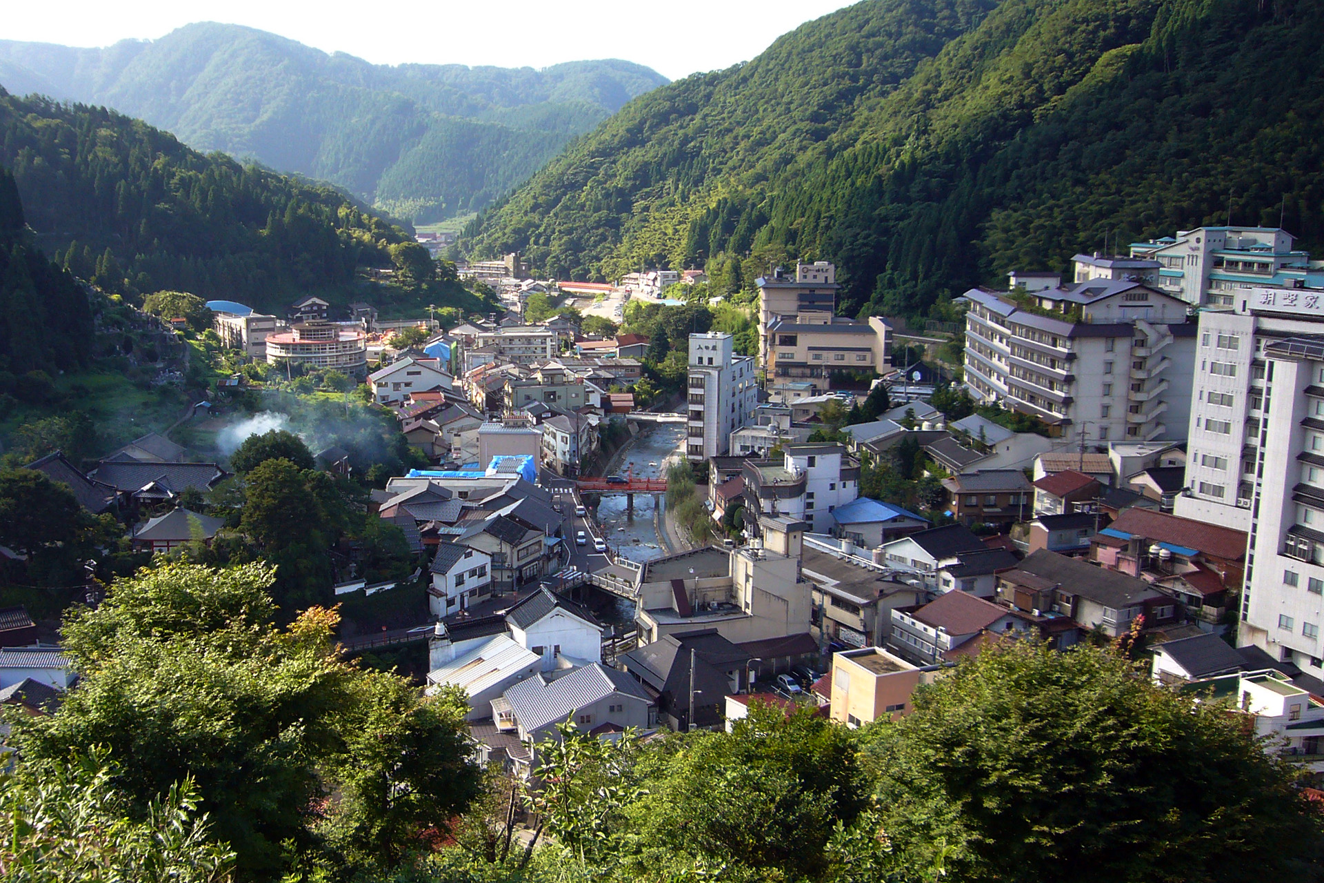 Yumura Onsen in Shinonsen, Hyogo prefecture, Japan